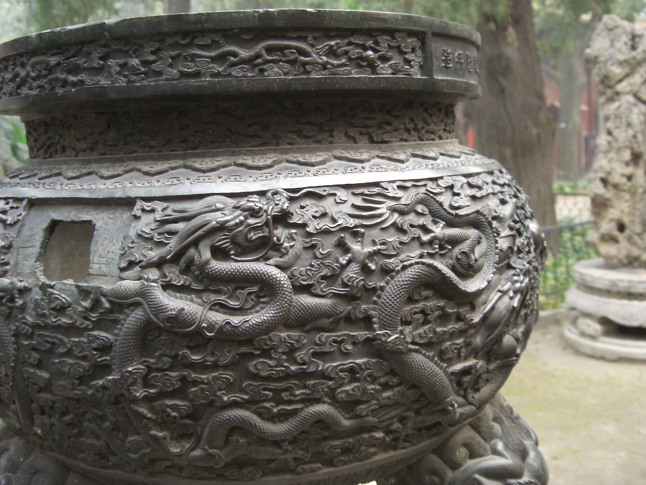 A censer at the Confucius Temple in Beijing, China has intricate carvings on it.